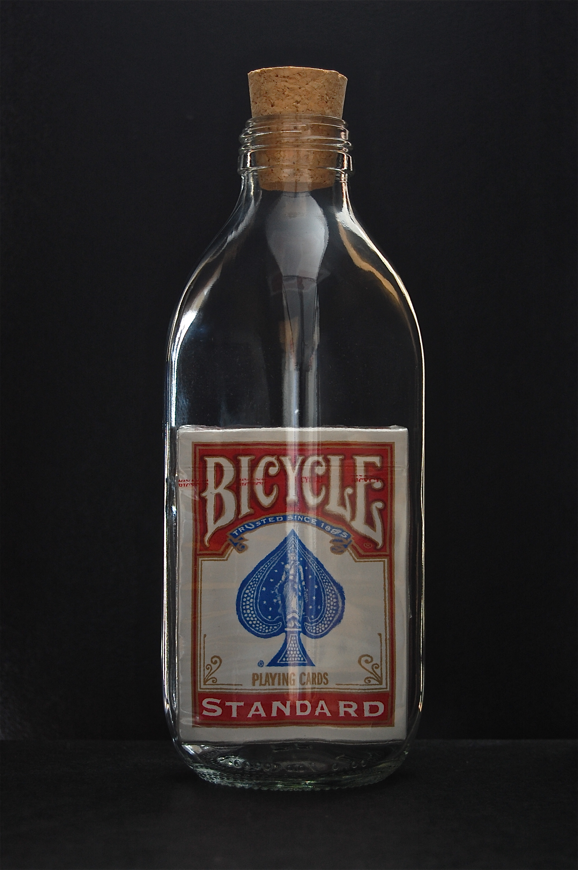 A sealed deck of Bicycle Playing Cards in an unaltered glass bottle.